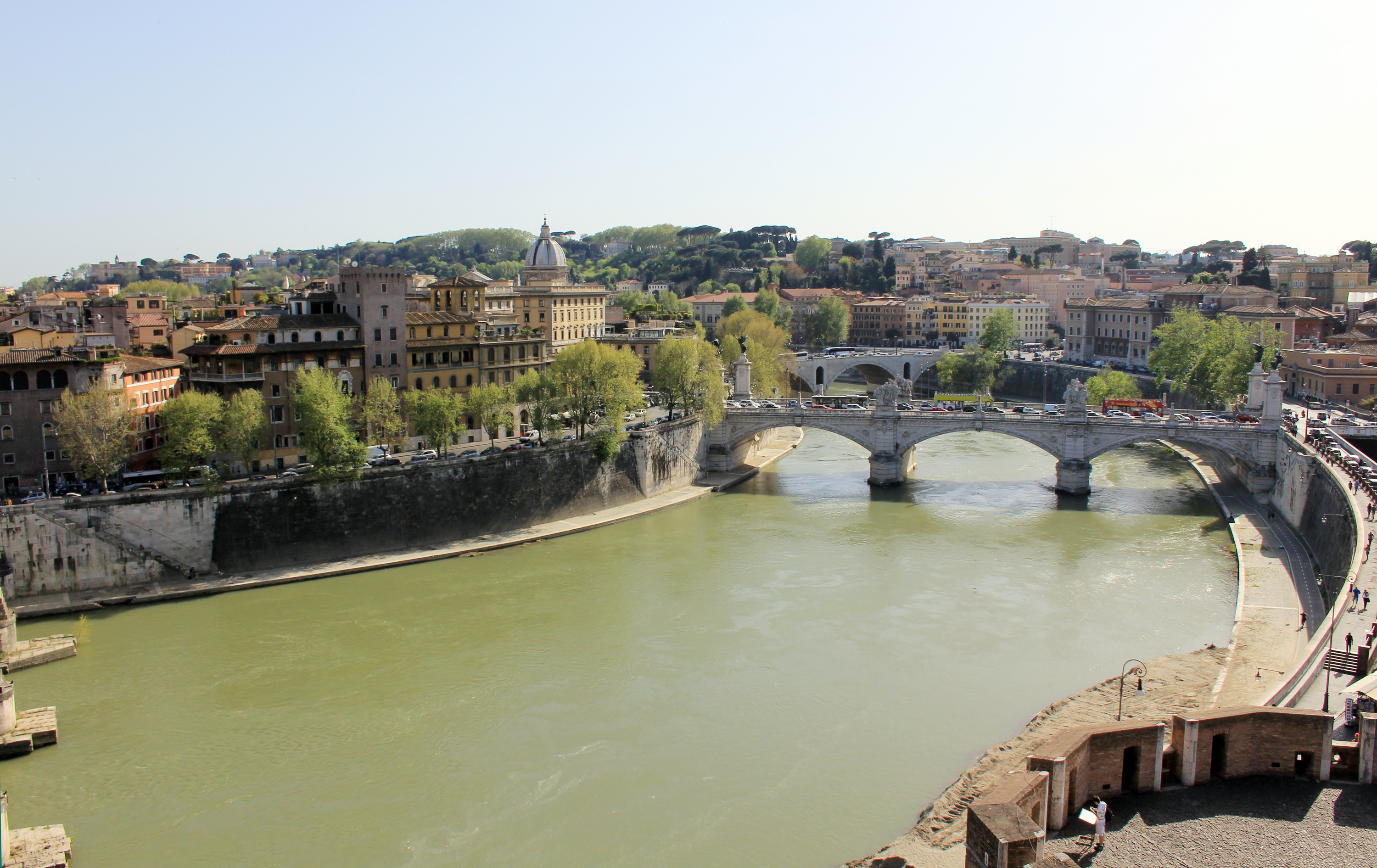 View on Roma and Ponte Vittorio Emanuele II over Tiber River from Castel Sant'Angelo